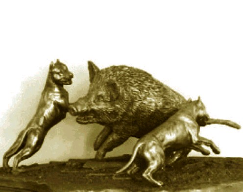 A bronze sculpture of two pitbull "catch dogs" surrounding a wild boar.